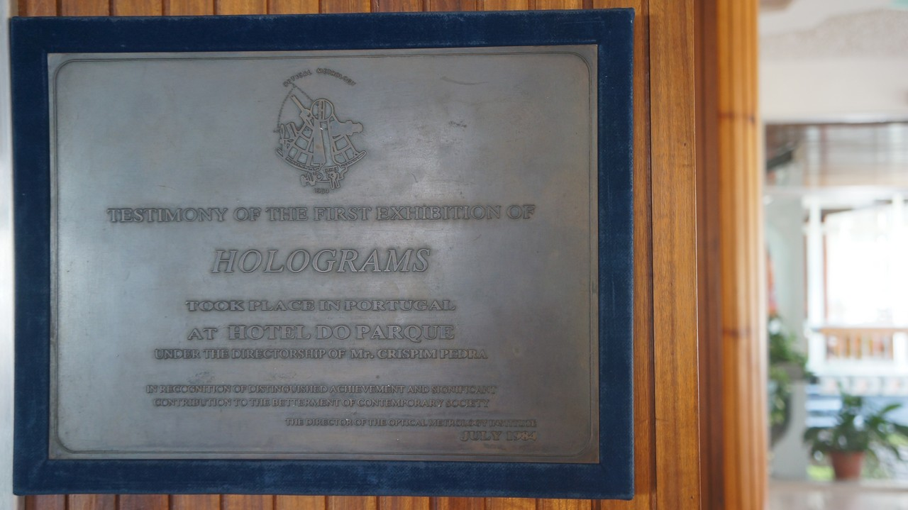 First exhibition of holograms in 1984 in Viana do Castelo (Portugal), certificate of the Optical Metrology Institute.